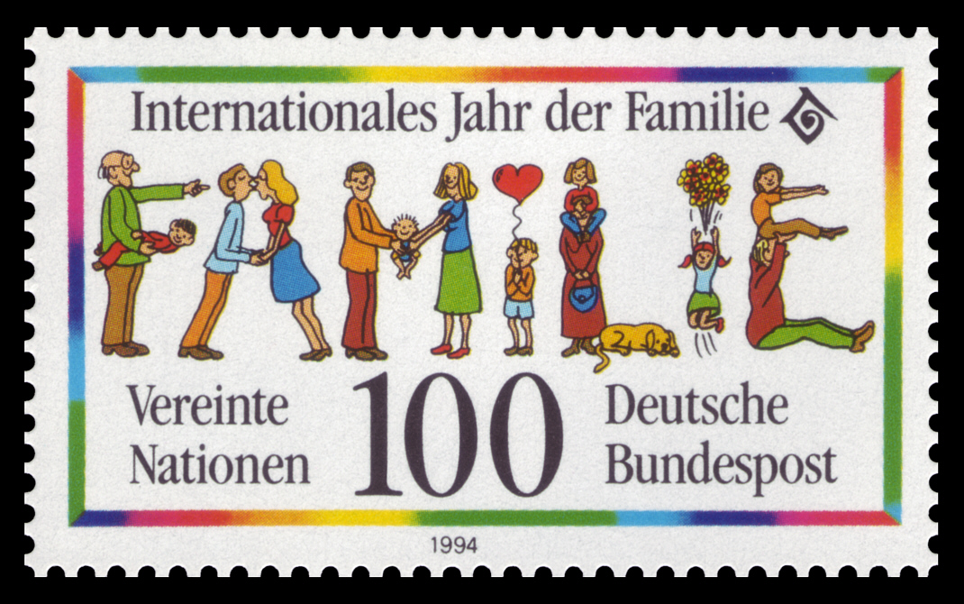 International year of the family 1994